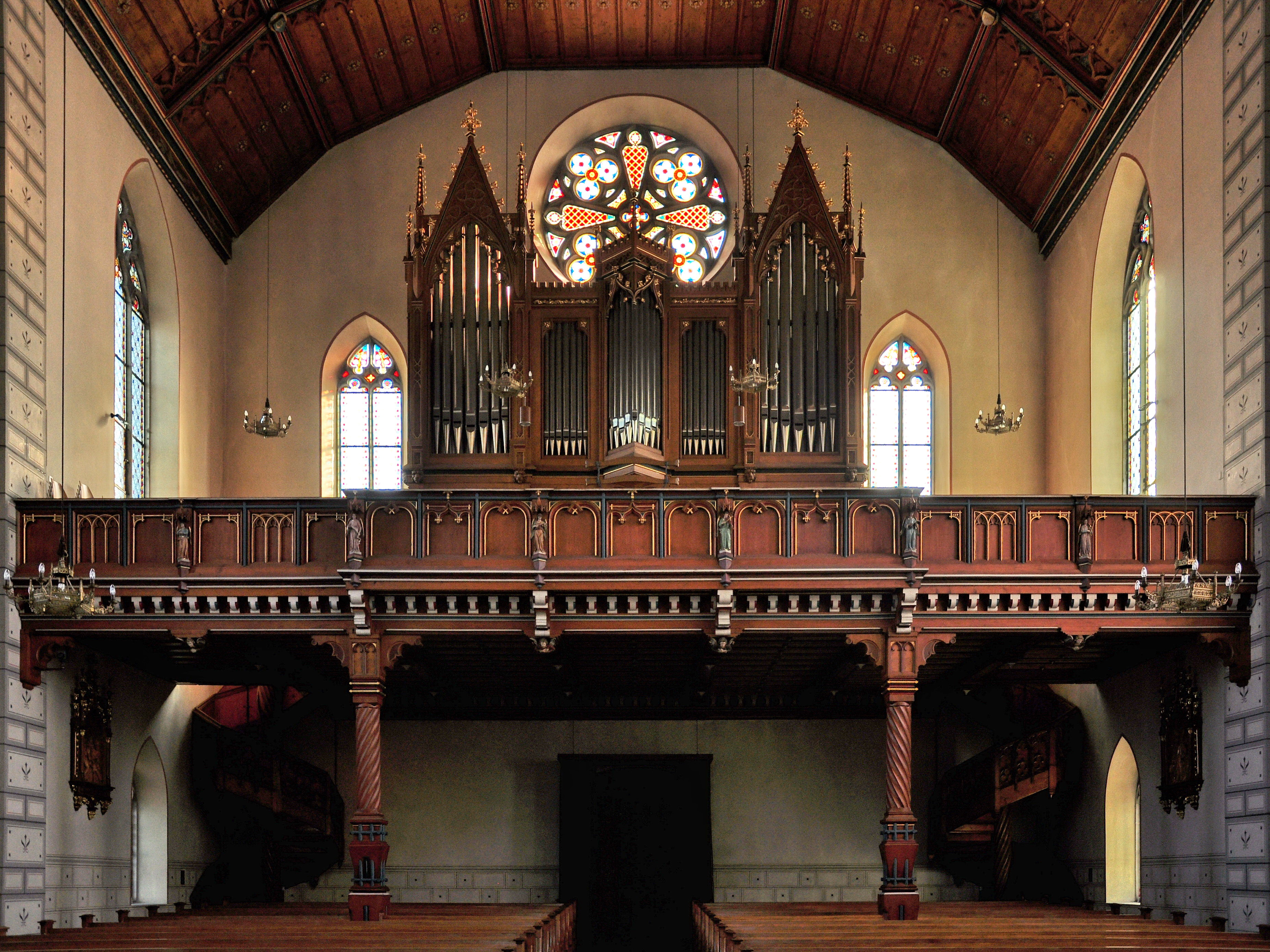 Rapperswil (SG) : Stadtpfarrkirche St. Johann (S. John's Church).